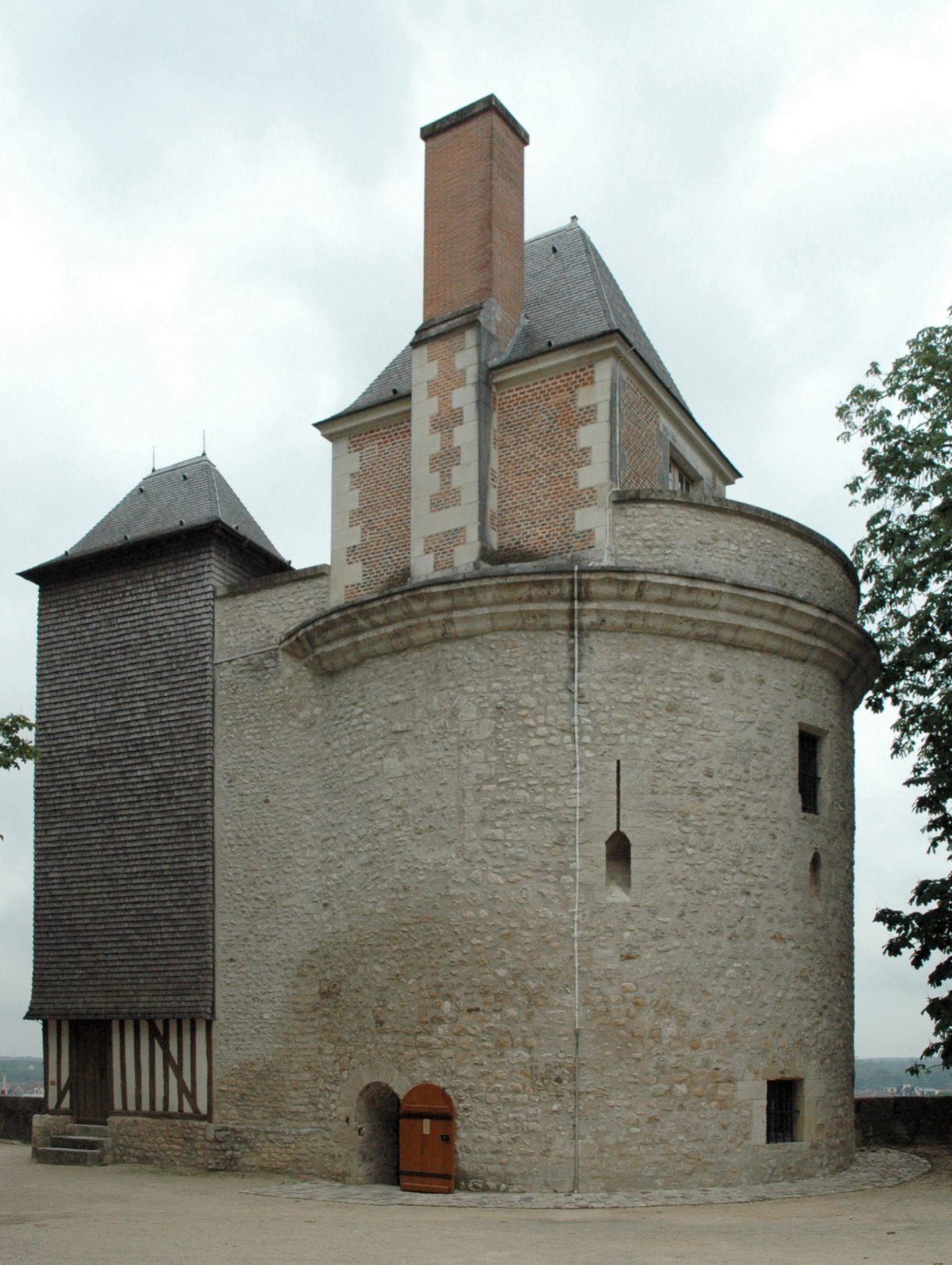 Château de Blois, Tour du Foix